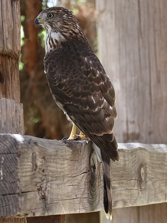 Cooper's Hawk Accipiter cooperii